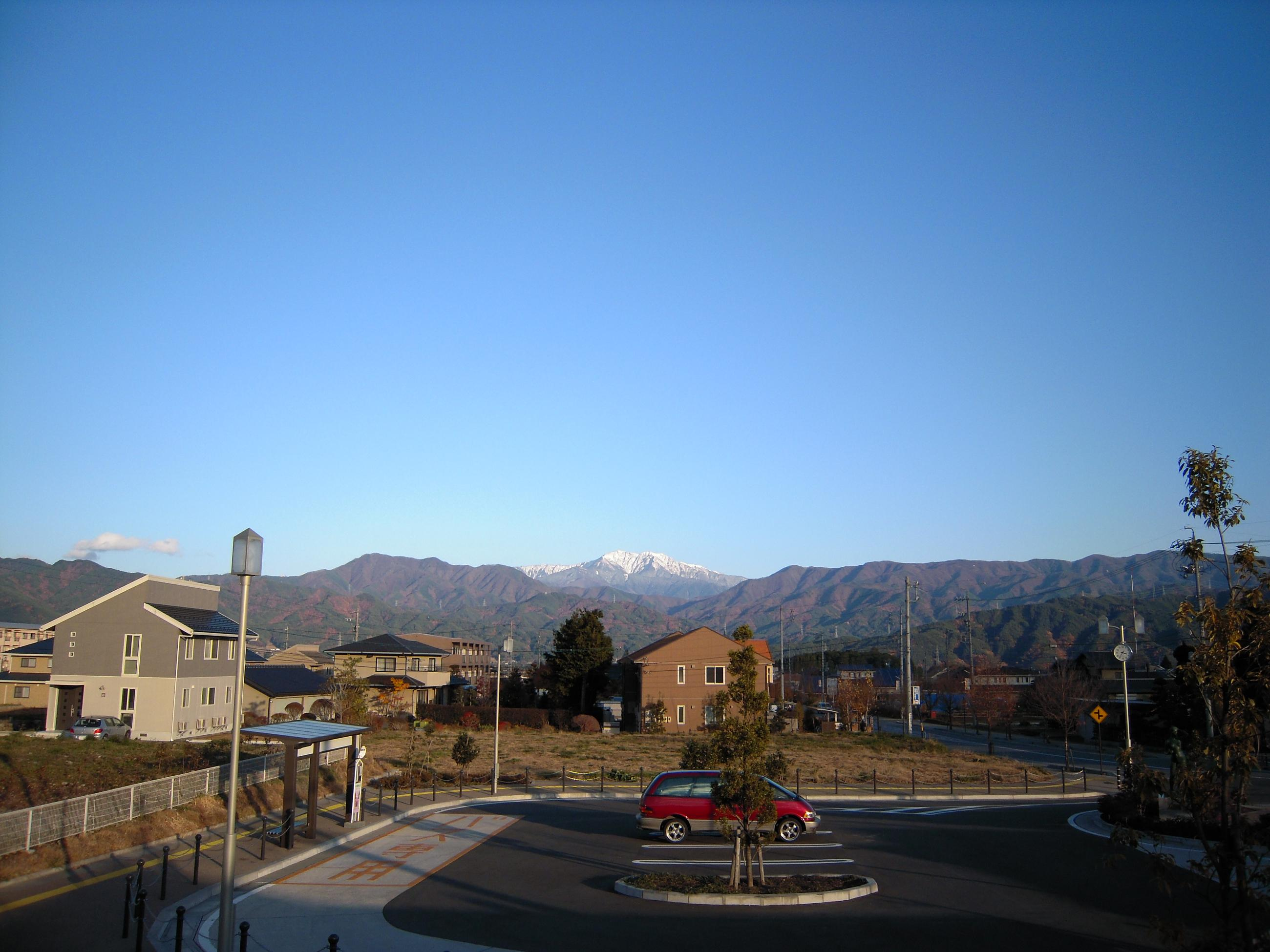 Japanese Southern Alps seen from JR Iida Line Komachiya Station